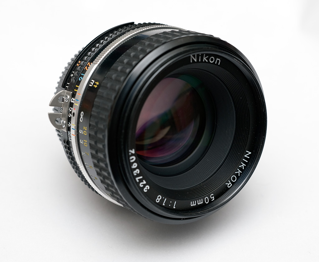 Nikon Ai-S NIKKOR 50mm f/1.8 (export version)